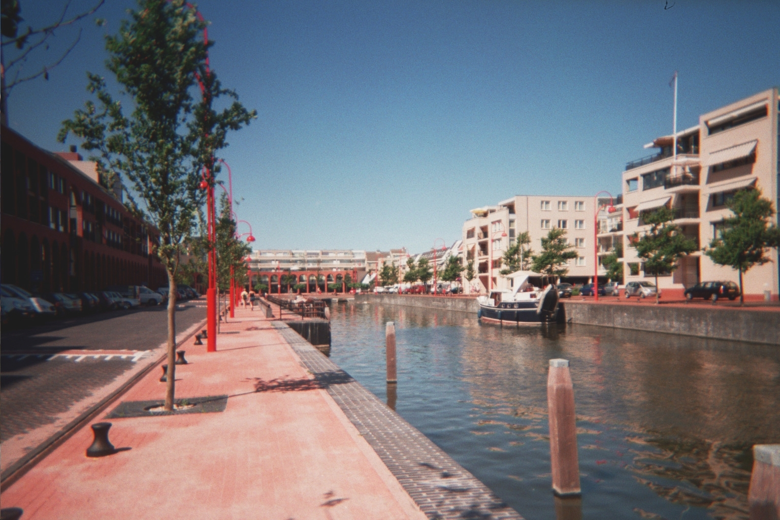 Prins Hendrikcanal (pic taken Sunday 17 July 2006)